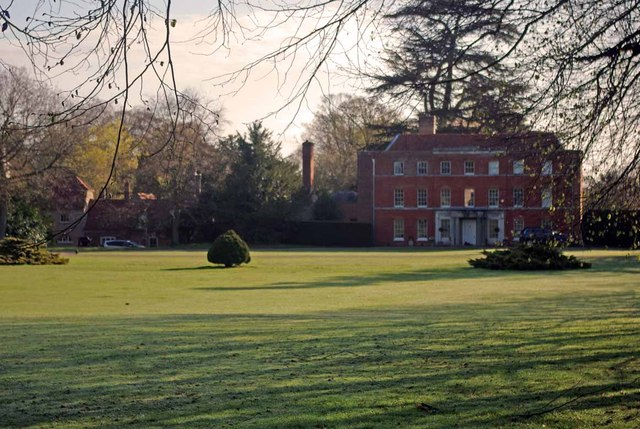 Copford Hall was built around 1760 for more info